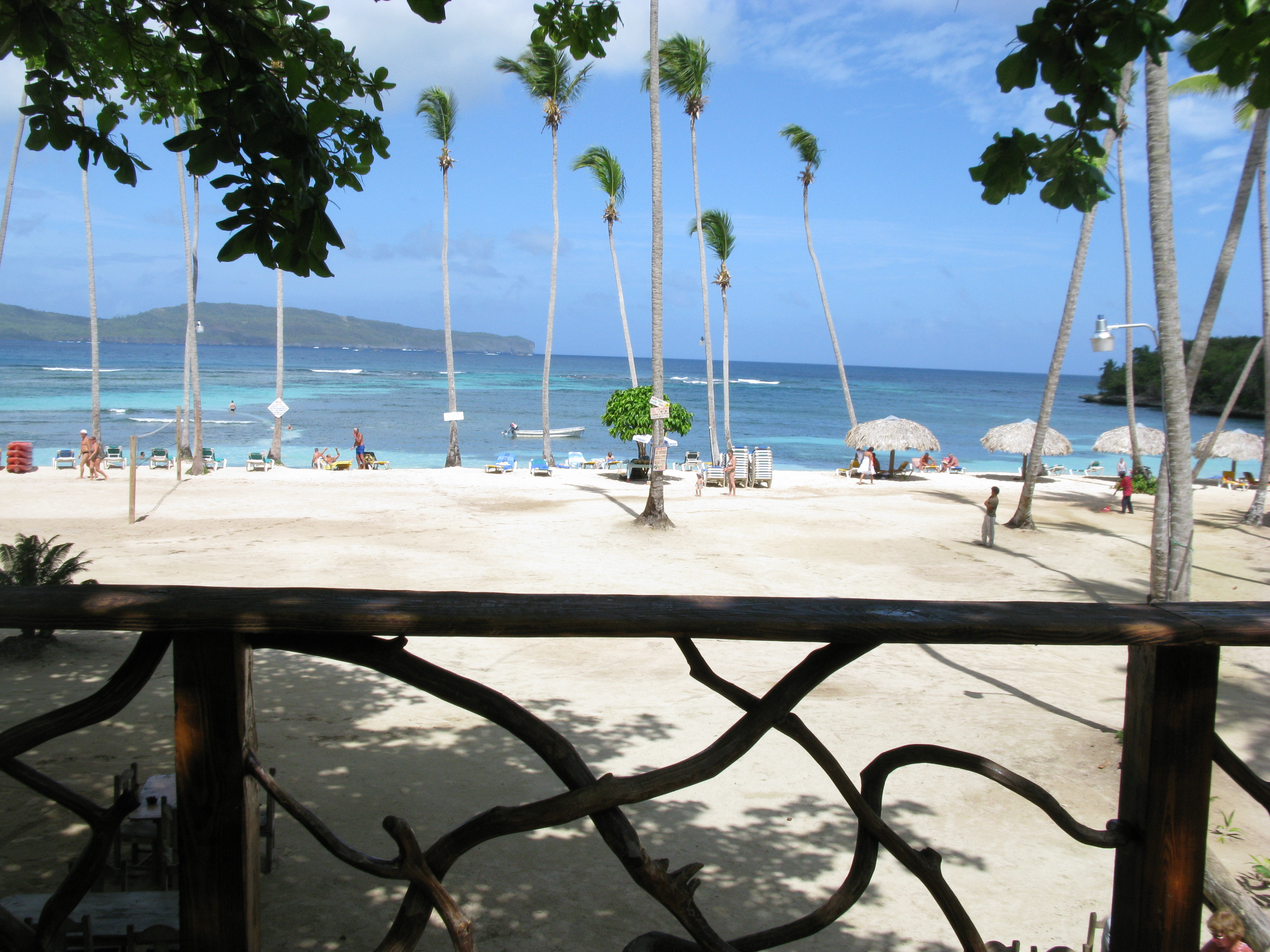 Playa "La Playita", a small beach located within walking distance of Las Galeras, Samana, Dominican Republic.